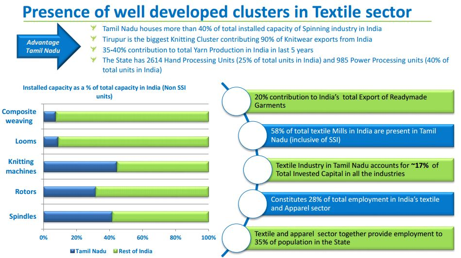 Textile industry in Tamil Nadu